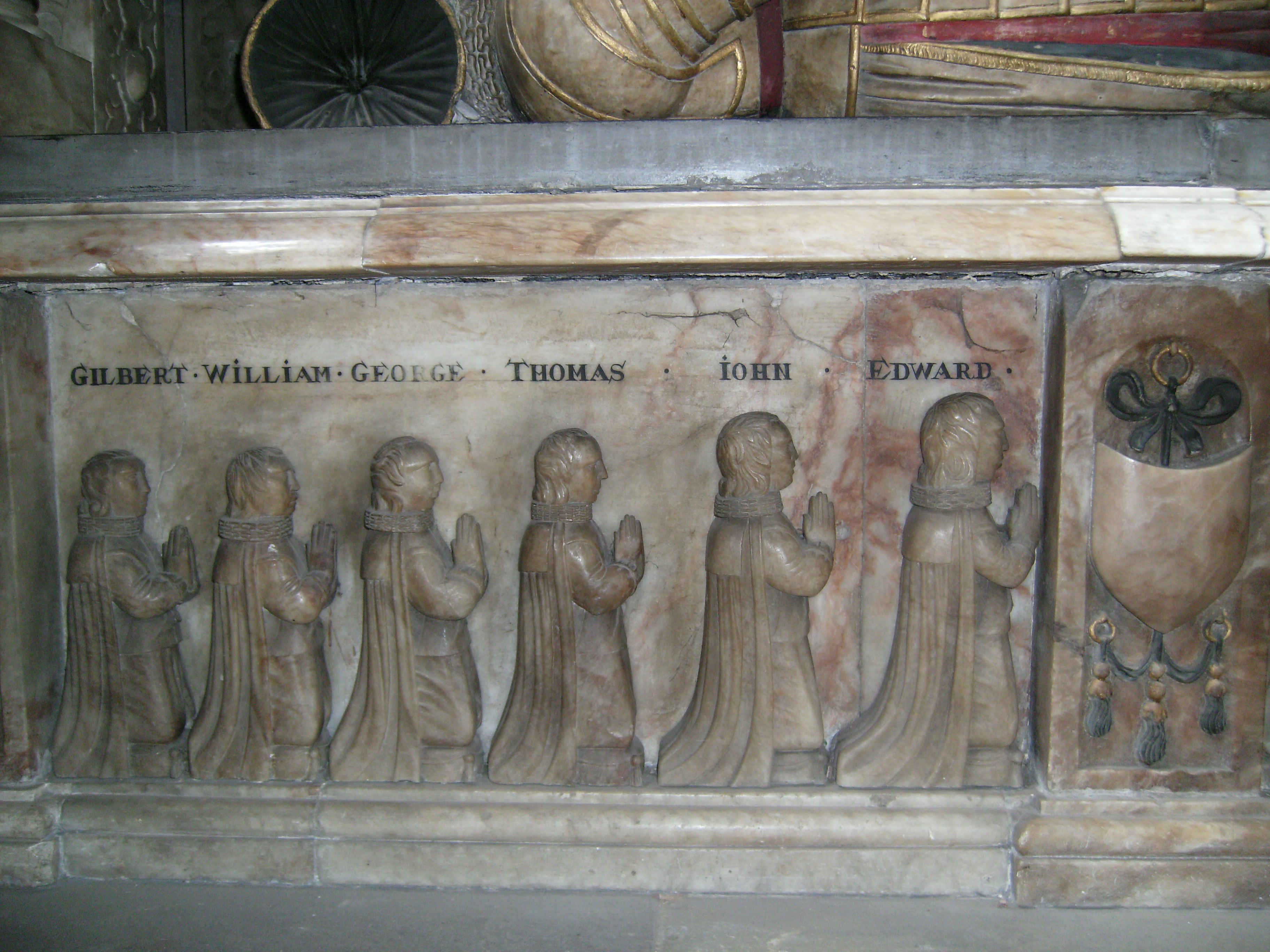 Sons of Sir Edward Littleton (died 1610) and Margaret Devereux, St Michael's church Penkridge, a feature of a double tomb on east wall.